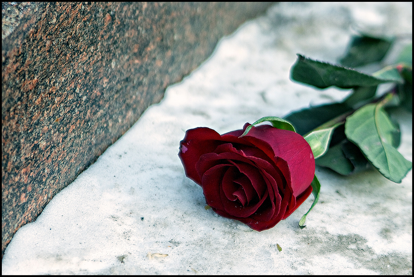 Red Gothic Rose